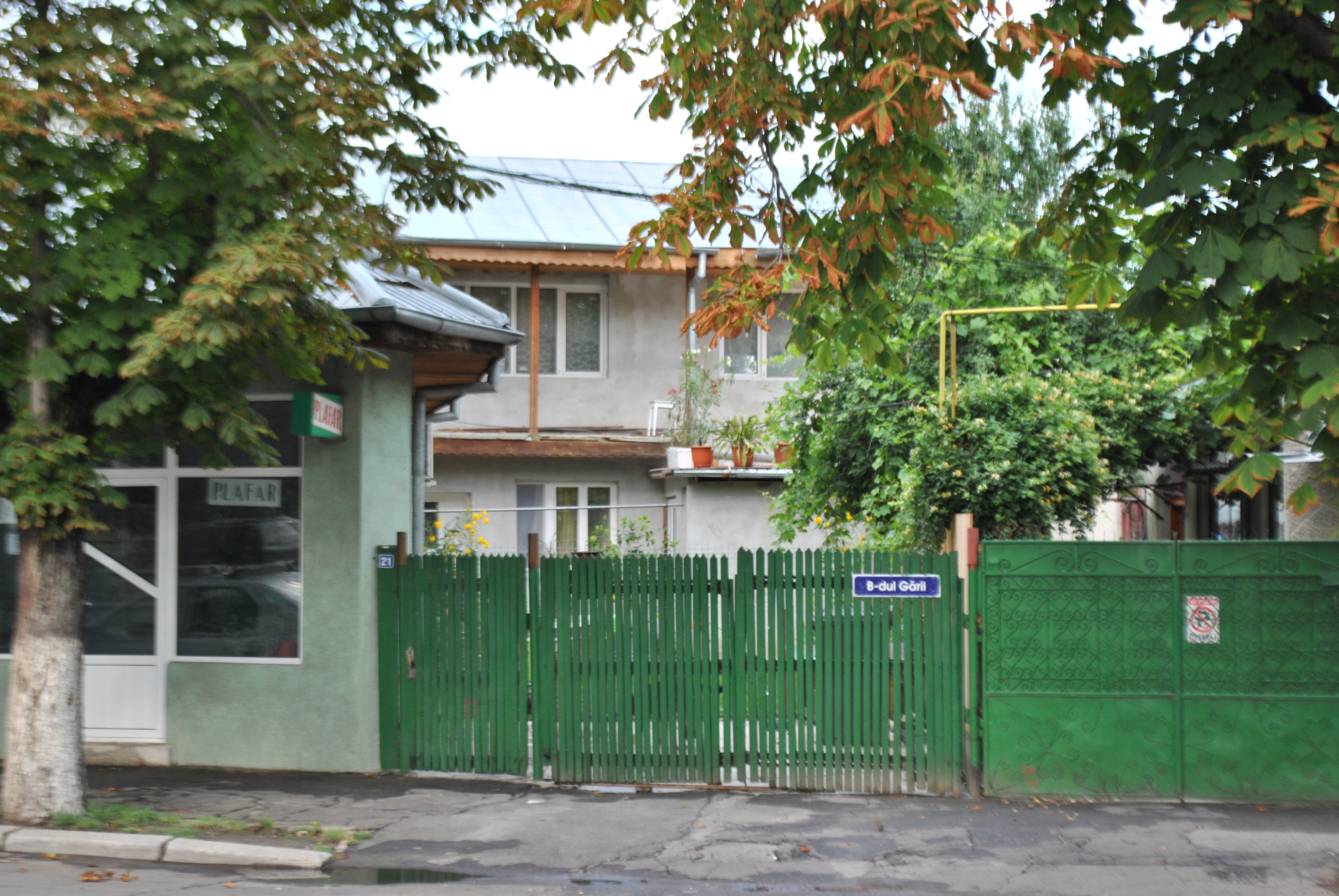 Historic building on Gării 21, Buzău, RomaniaRomână: Clădire istorică din Buzău, România, pe bd. Gării